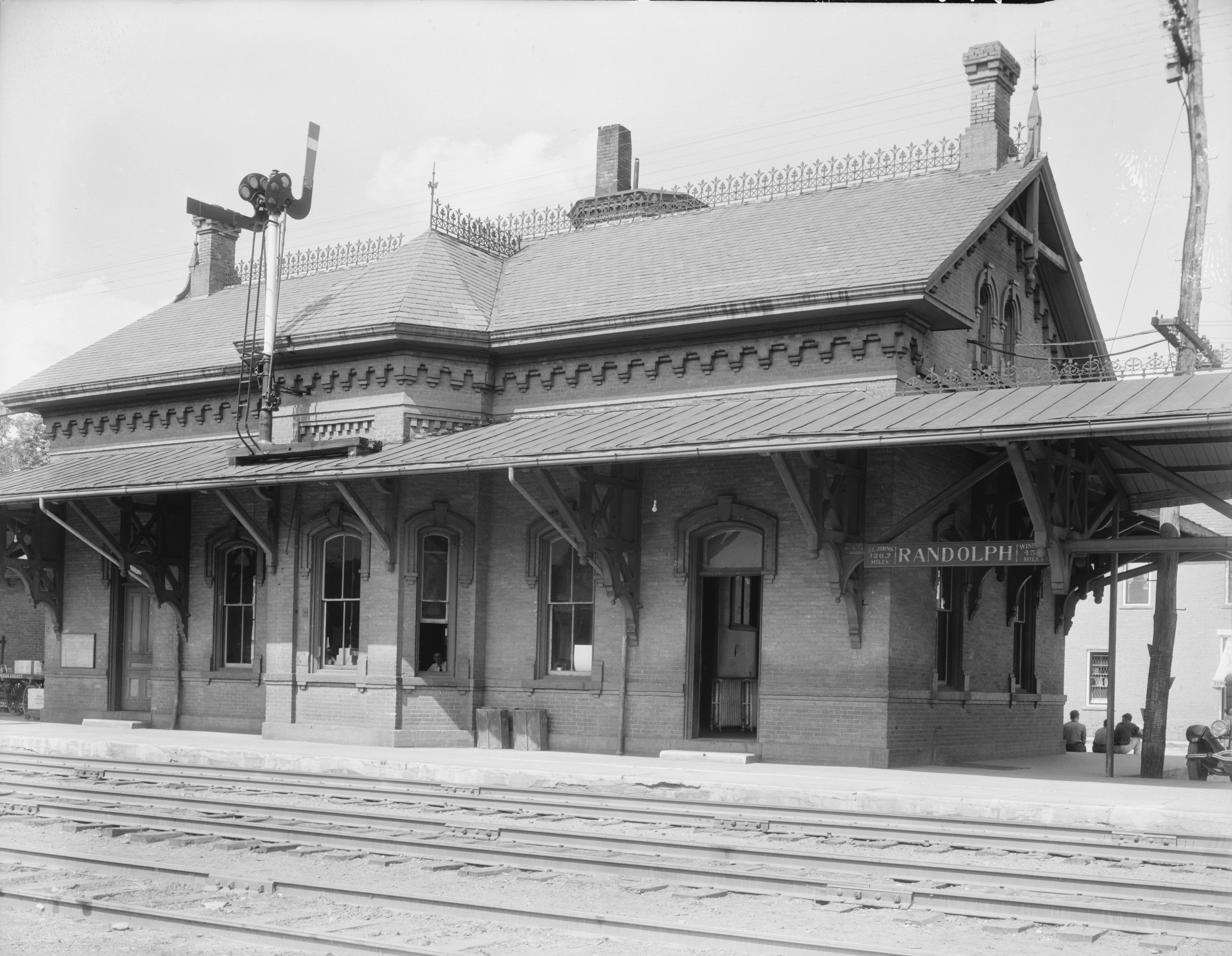 Central Vermont Railway station in Randolph, Vermont.